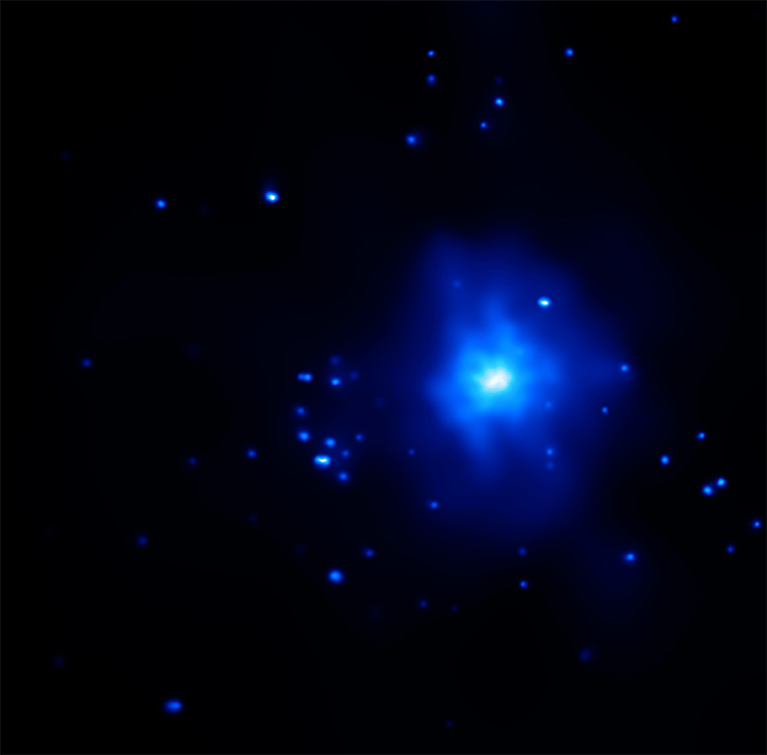 Chandra X-ray Image of the intermediate black hole event, (NGC 1399) without the Hubble space telescope overlay.